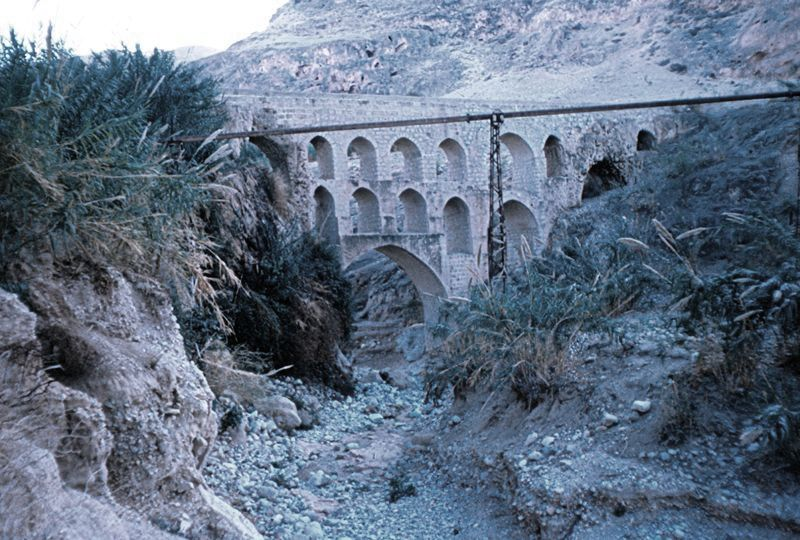 Roman aqueduct near Jericho, West Bank